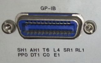 IEEE-488 port with listed capabilities on a spectrum analyser.